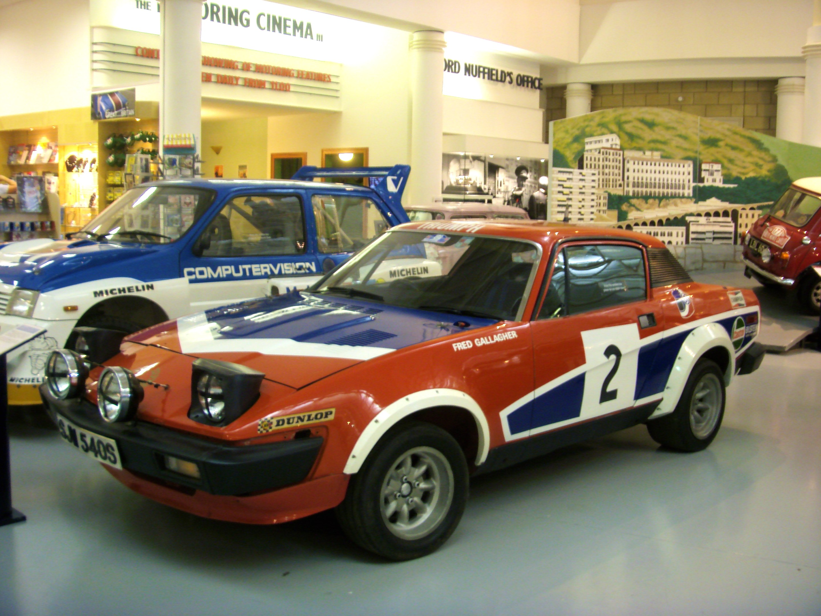 Oh yeah! Such a fabulous looking machine. If I had a TR7 I'd be seriously tempted to replicate this car...